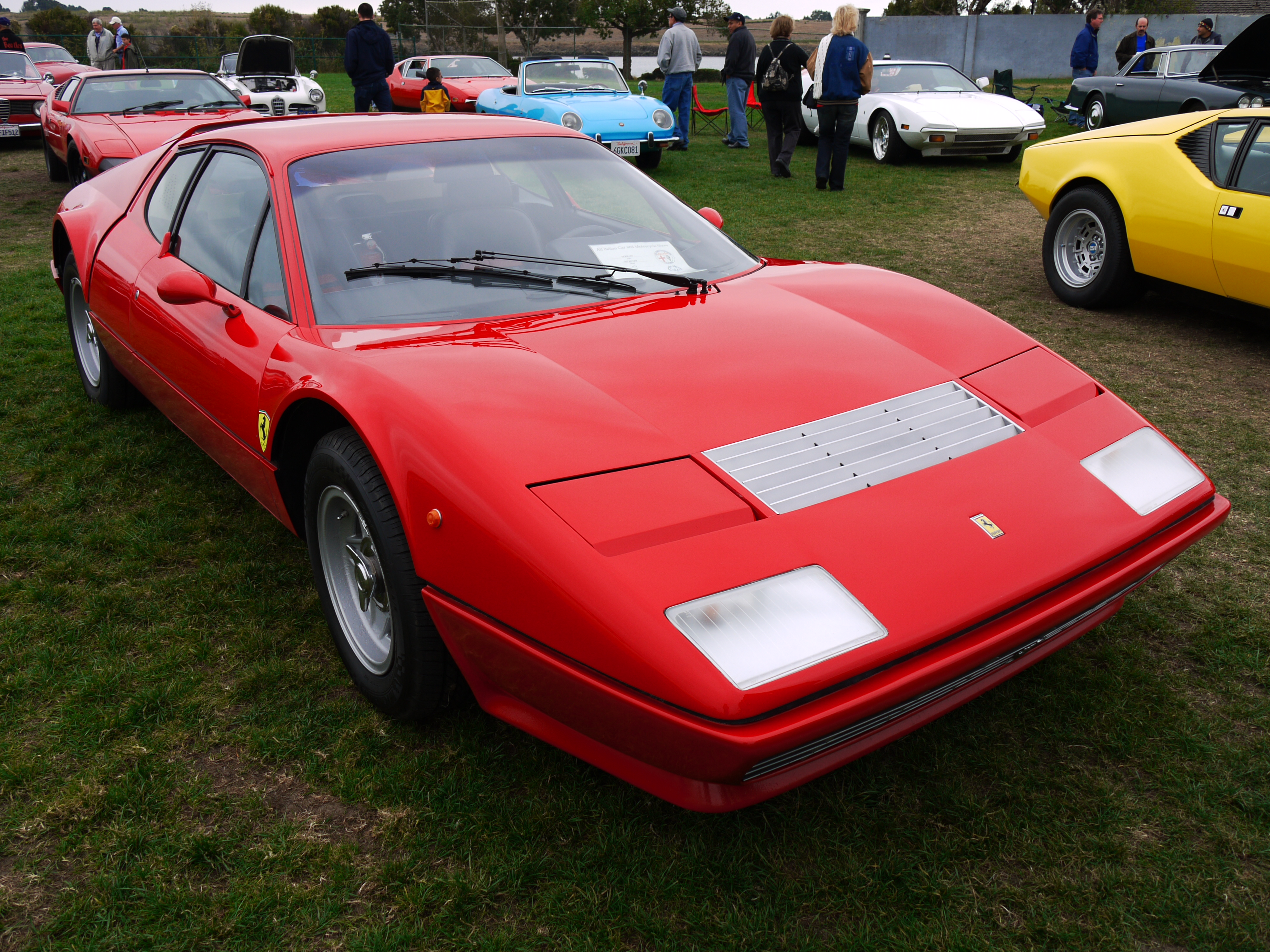 1974 Ferrari 365 GT/4 BB at the 2009 Alameda All Italian Car & Motorcycle Show